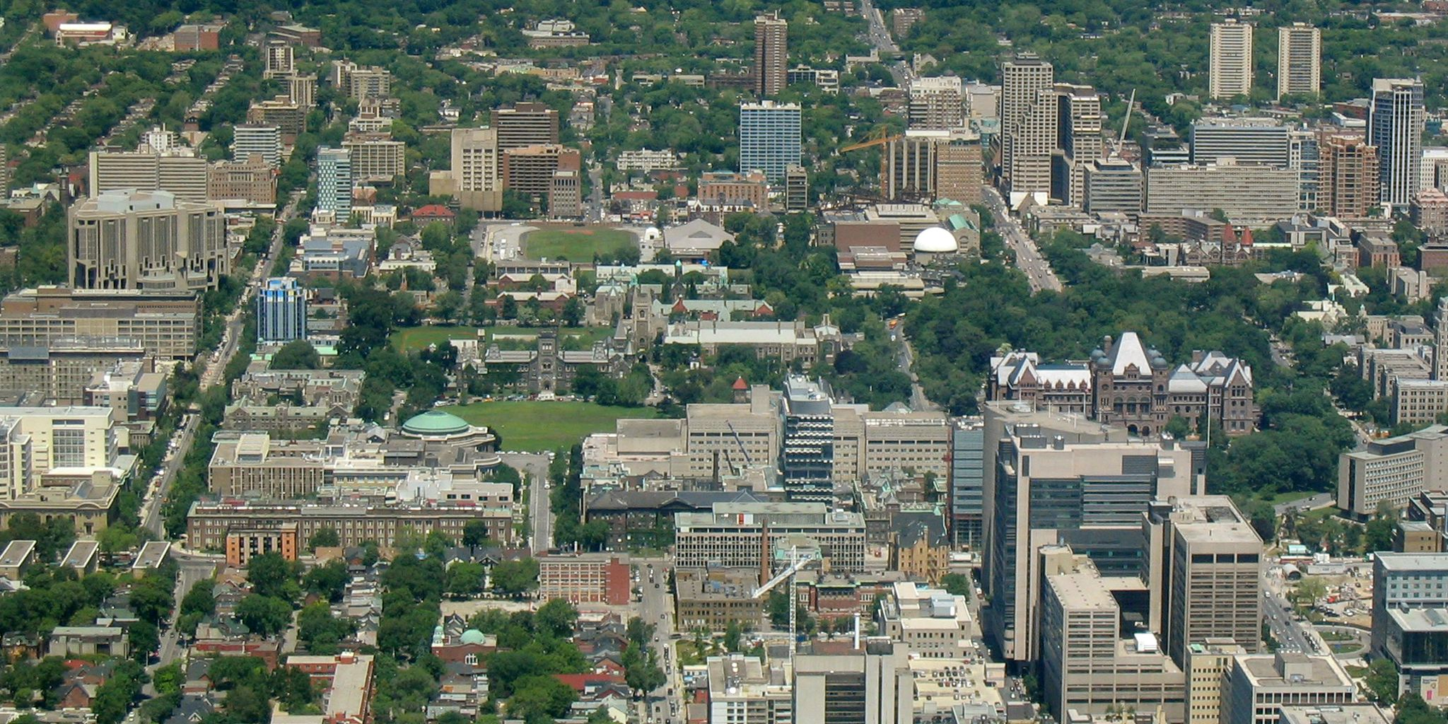 University of Toronto grounds, viewed from the CN Tower.